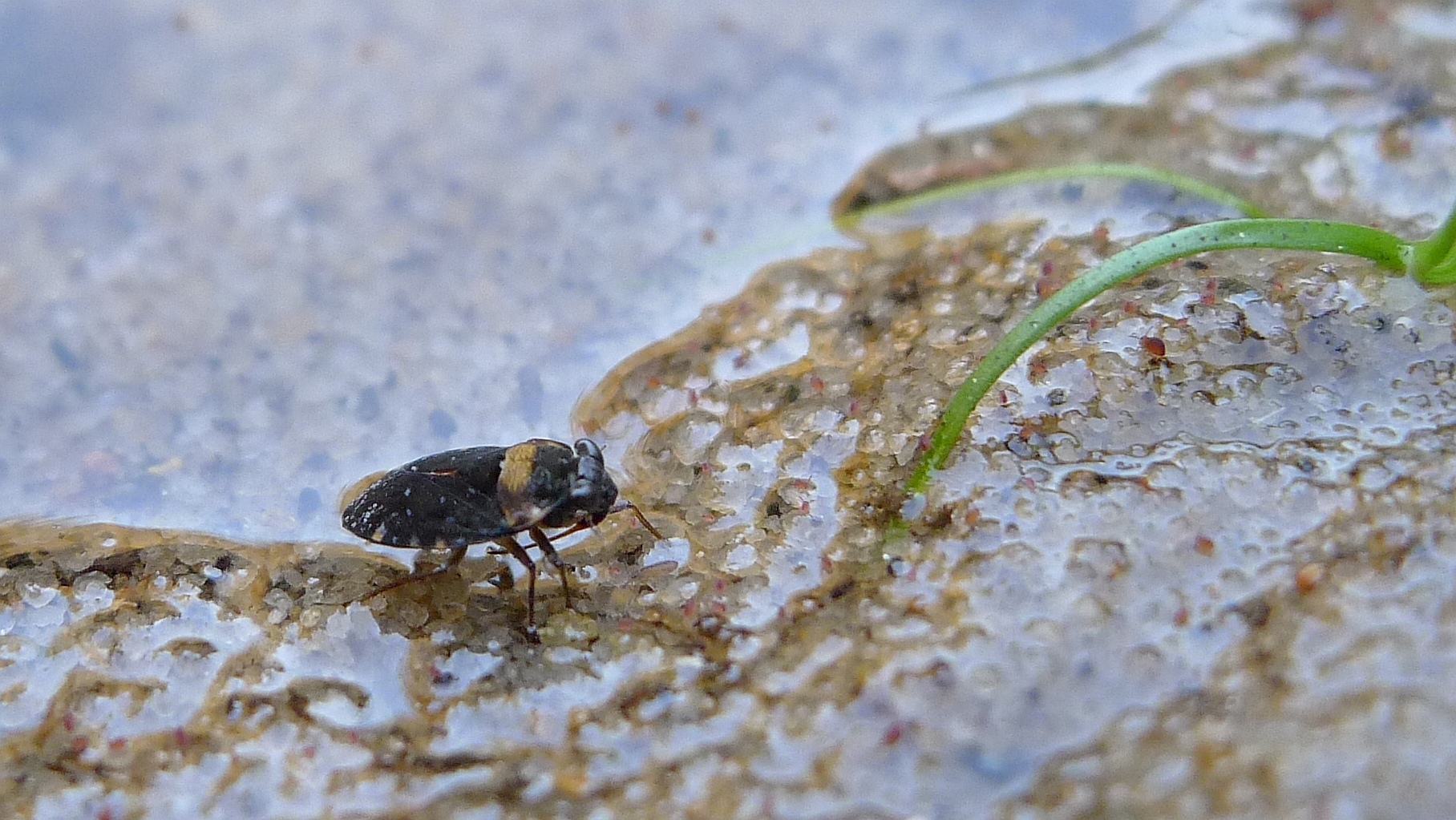 Velvety Shore Bug, a species of Ochterus. Heathcote National Park, NSW Australia, September 2012.